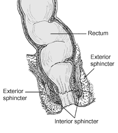 Diagram of the rectum and anus.